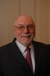 Gerard Millet, Mayor of Melun